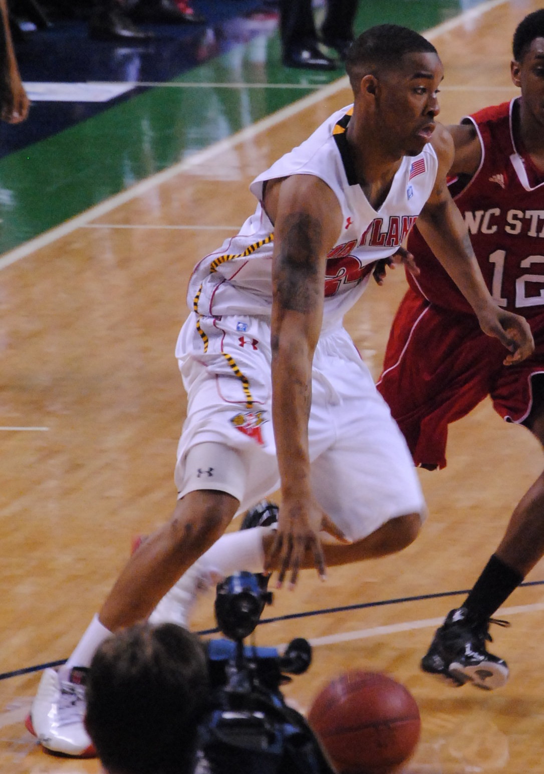 Cliff Tucker works against Ryan Harrow